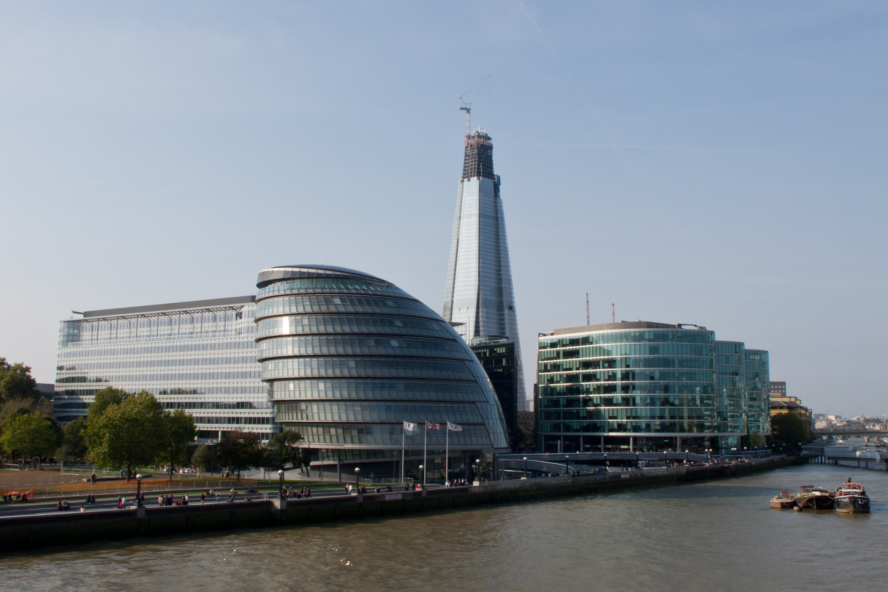 More London development and London City Hall by river Thames; Shard London Bridge in the background, Southwark district, London, England.